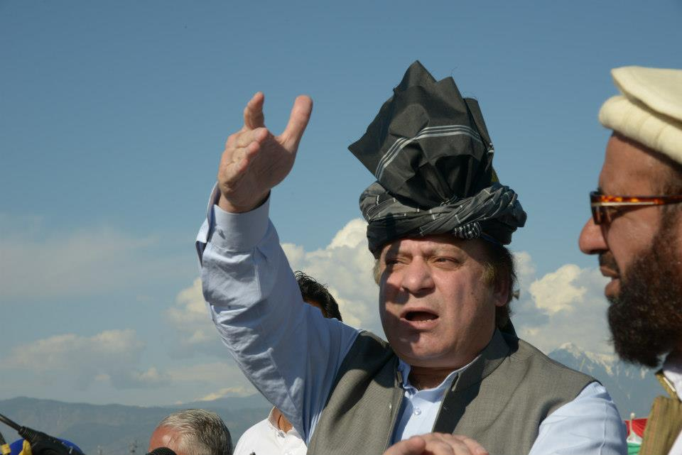 this file Muhammad Sunny jpg